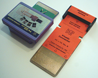 Photo of the two common HuCard adapters for playing Japanese PC-Engine games on the U.S. TurboGrafx-16.